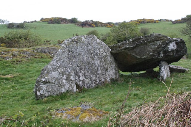 Din Dryfol Burial Chambers. The Chamber.